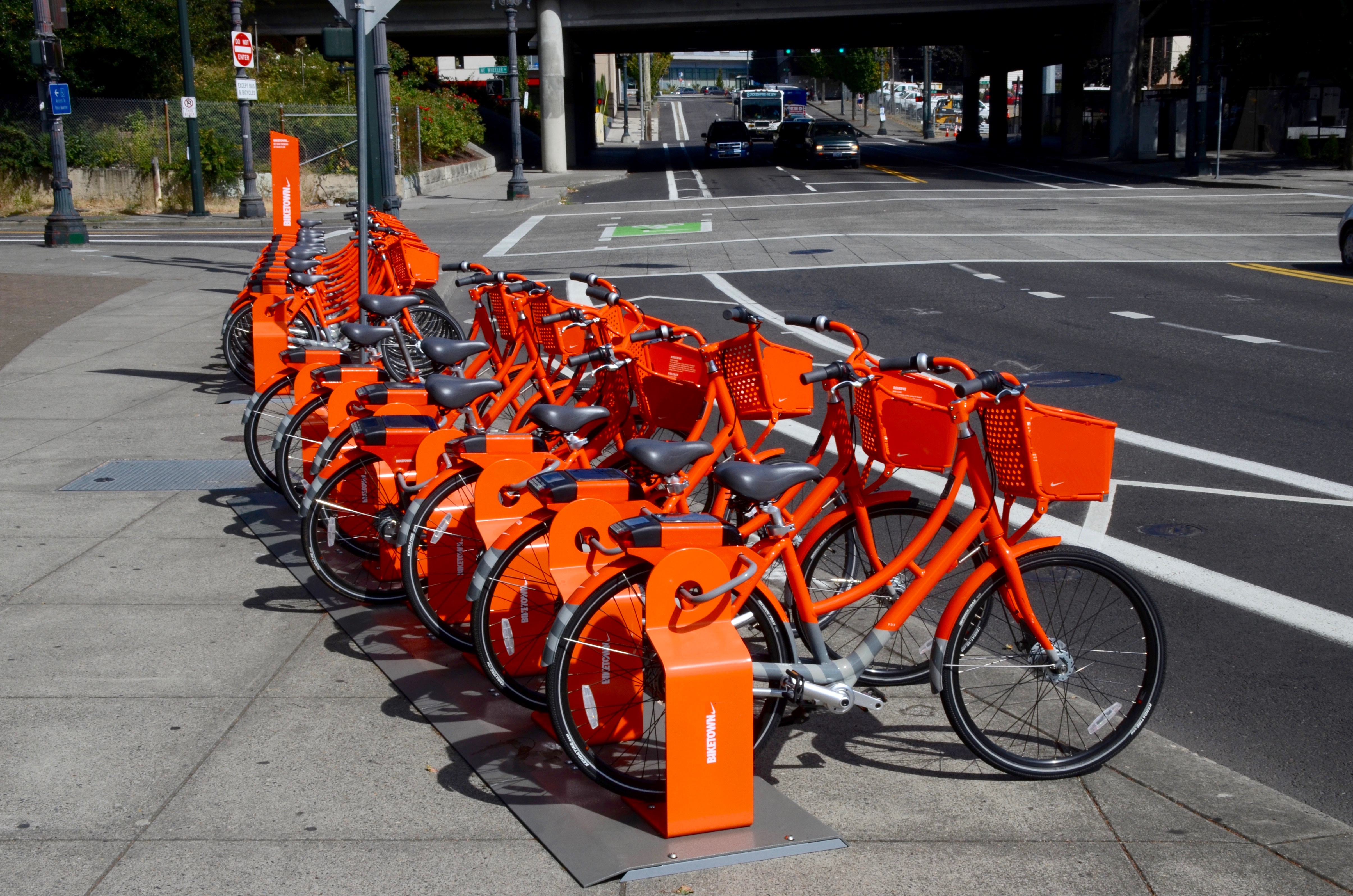 A Biketown station in the Rose Quarter, at the intersection of NE Multnomah Street and Wheeler Avenue. Biketown is the bicycle-sharing system in Portland, Oregon, launched in July 2016.